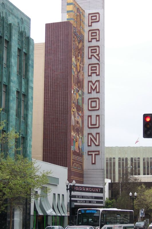 walking from 19th street bart to the saturn dealership. Paramount theater.